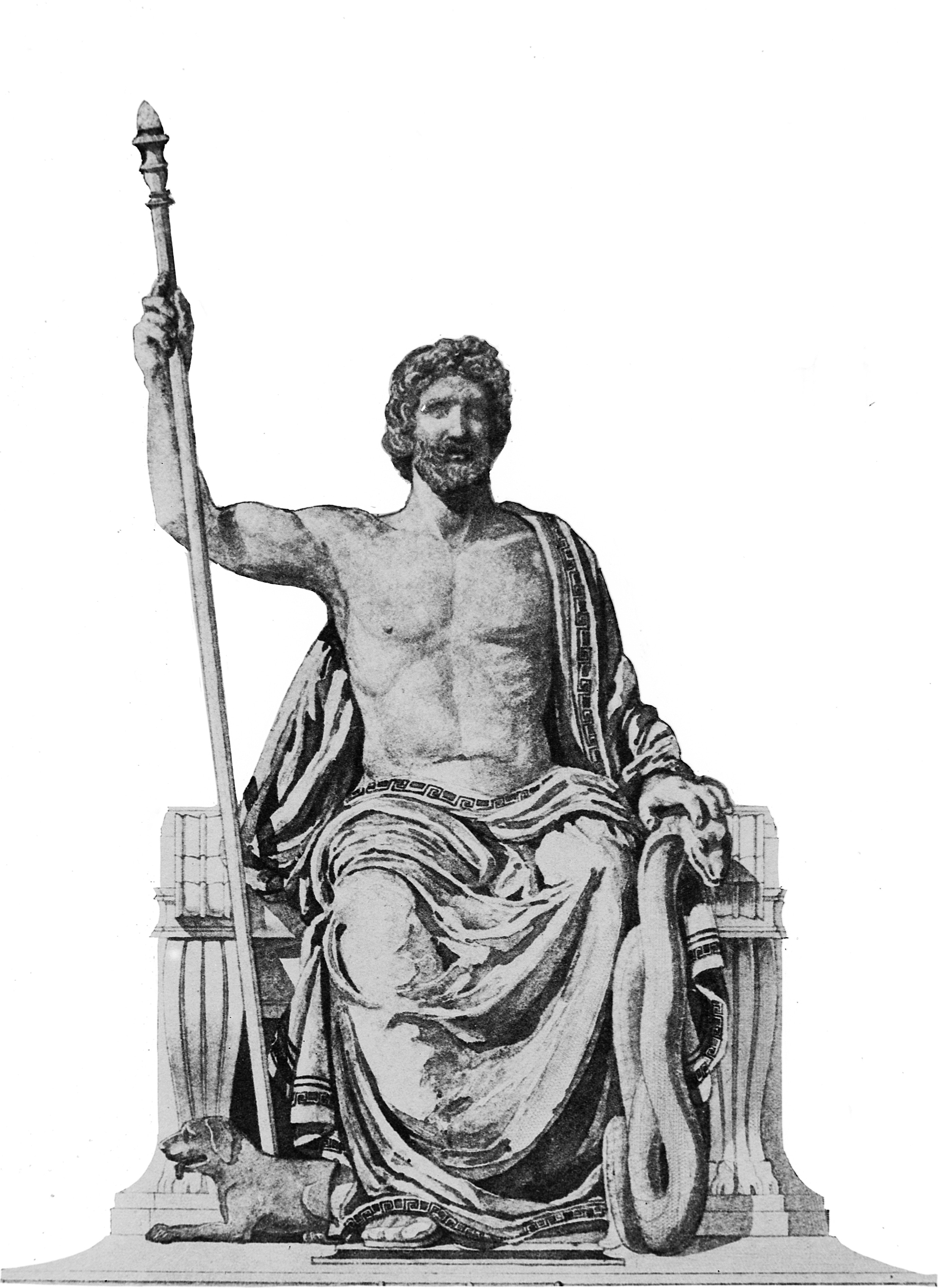 Aesculapius, seated holding staff. Wellcome Images Keywords: Aesculapius